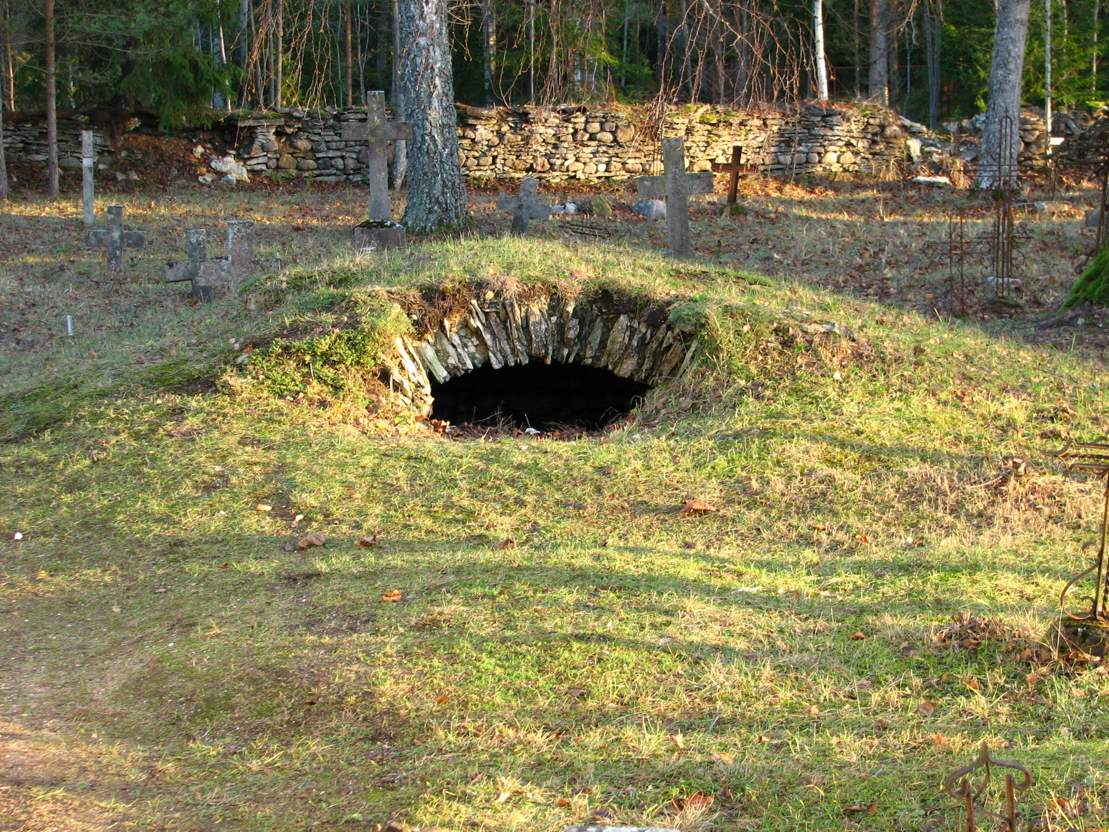 Cellar ruins, Rooslepa cemetery